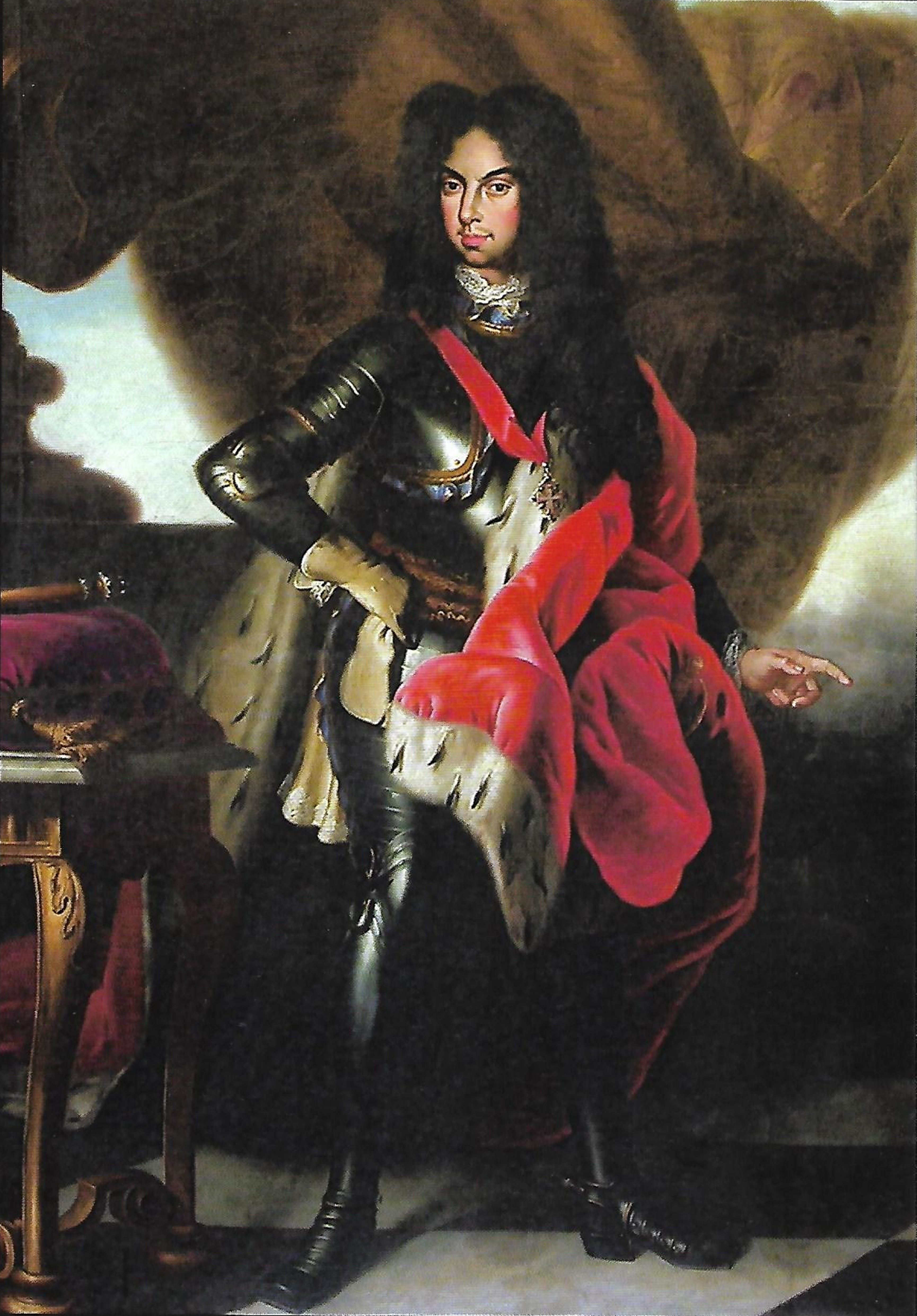 Reis de Portugal: Pedro II by Maria Paula Marçal Lourenço